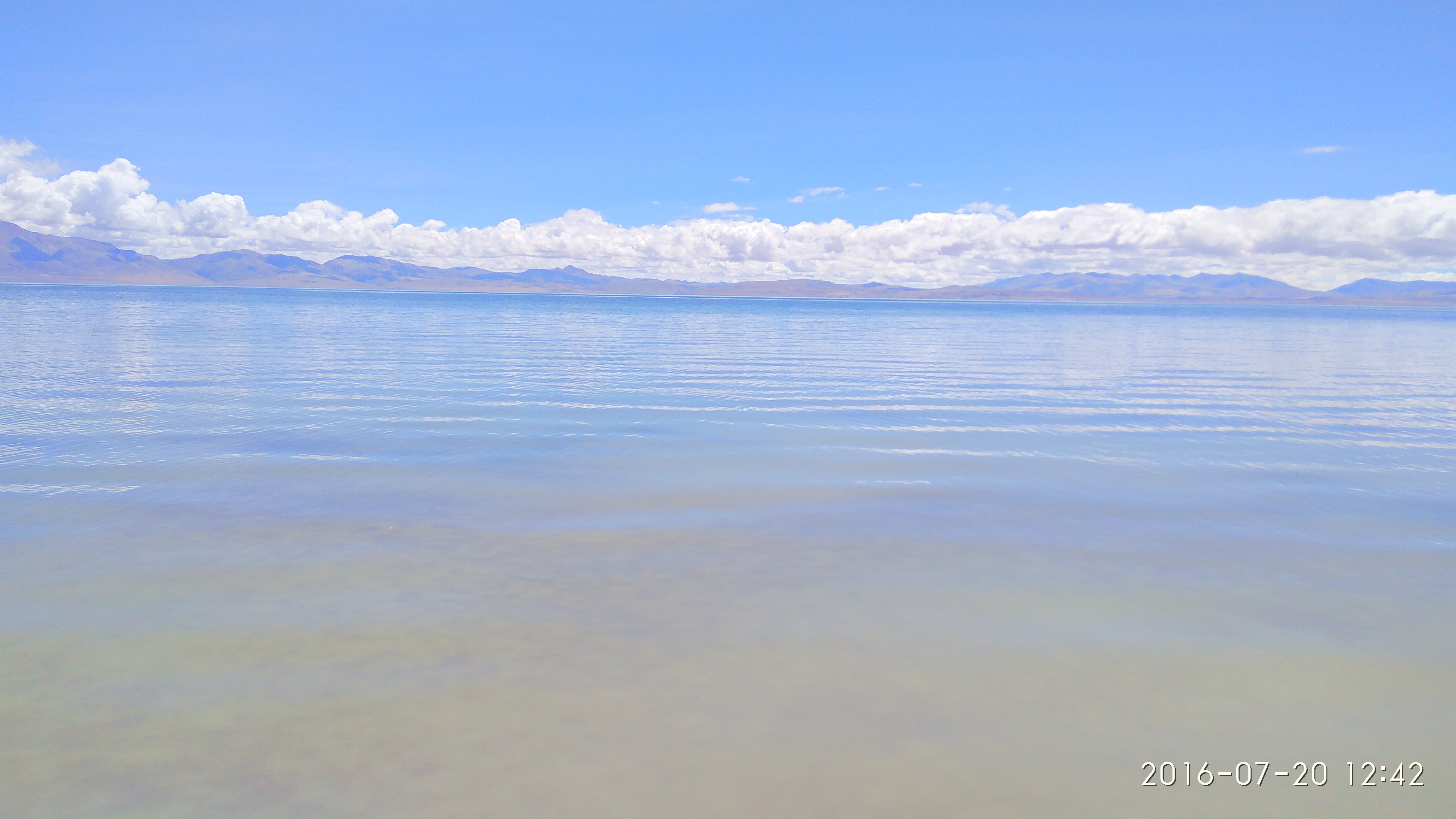 This pic is of Lake Manasa Sarovar.